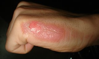 2nd degree burn in hand